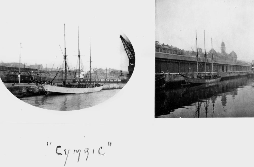 Cymric (ship) Built 1893. 228 tons gross; 114 tons nett. Photographed in 1930. (Description supplied with photograph).